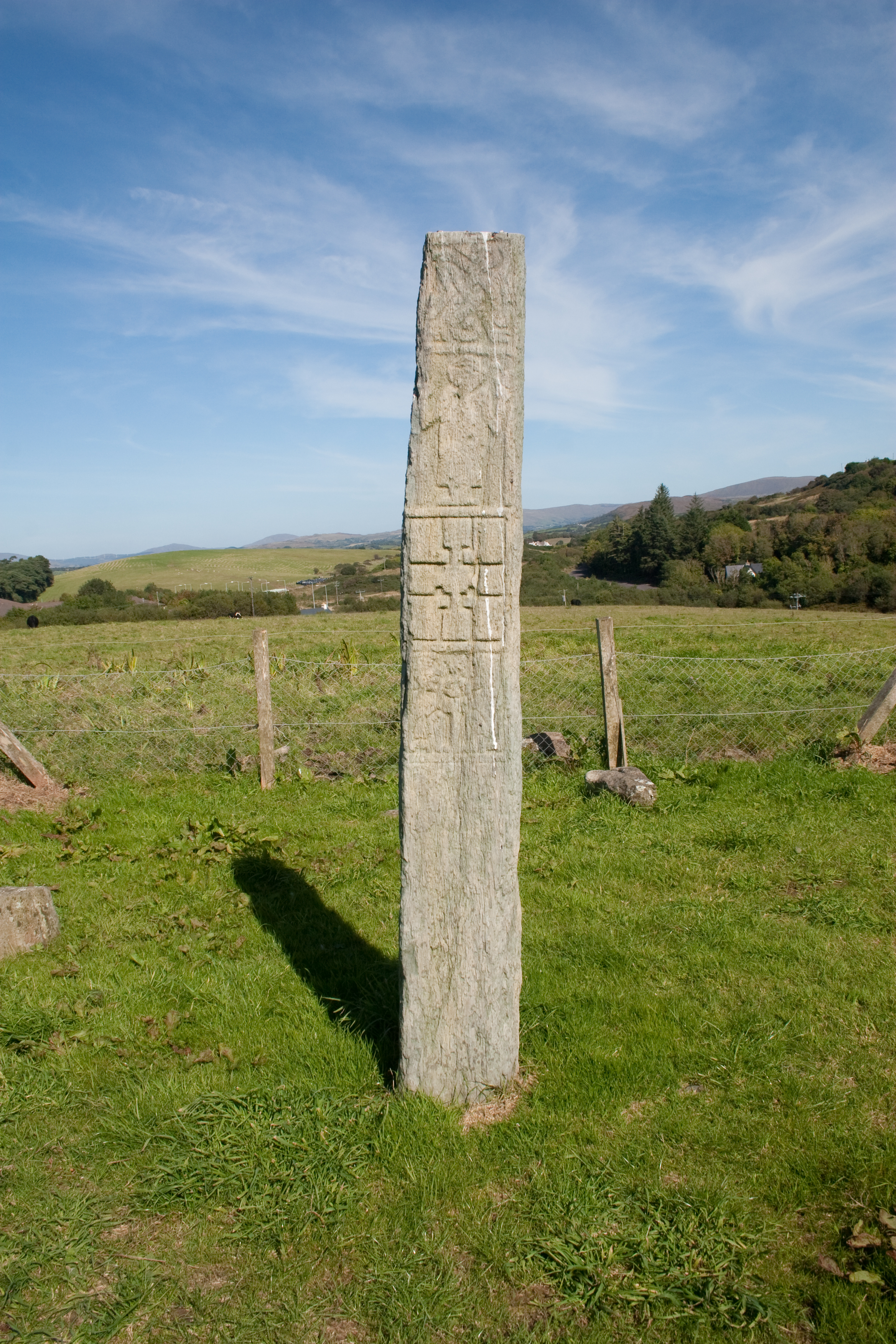 Kilnaruane, close to Bantry, County Cork, Ireland North-west face of the surviving shaft which belonged to a high cross which is described as follows by Peter Harbison in his work Irish High Crosses, ISBN 095-1782-371, p. 82: "The central figure on the east[sic!] face is an equal-armed cross. Beneath is a scene of the raven bringing bread to the desert hermits Paul and Anthony with, between them, a T-shape which could represent a table or the staff in the form of a T, which is an attribute of St Anthony. Above the cross is an unidentified figure raising its hand in supplication or prayer."